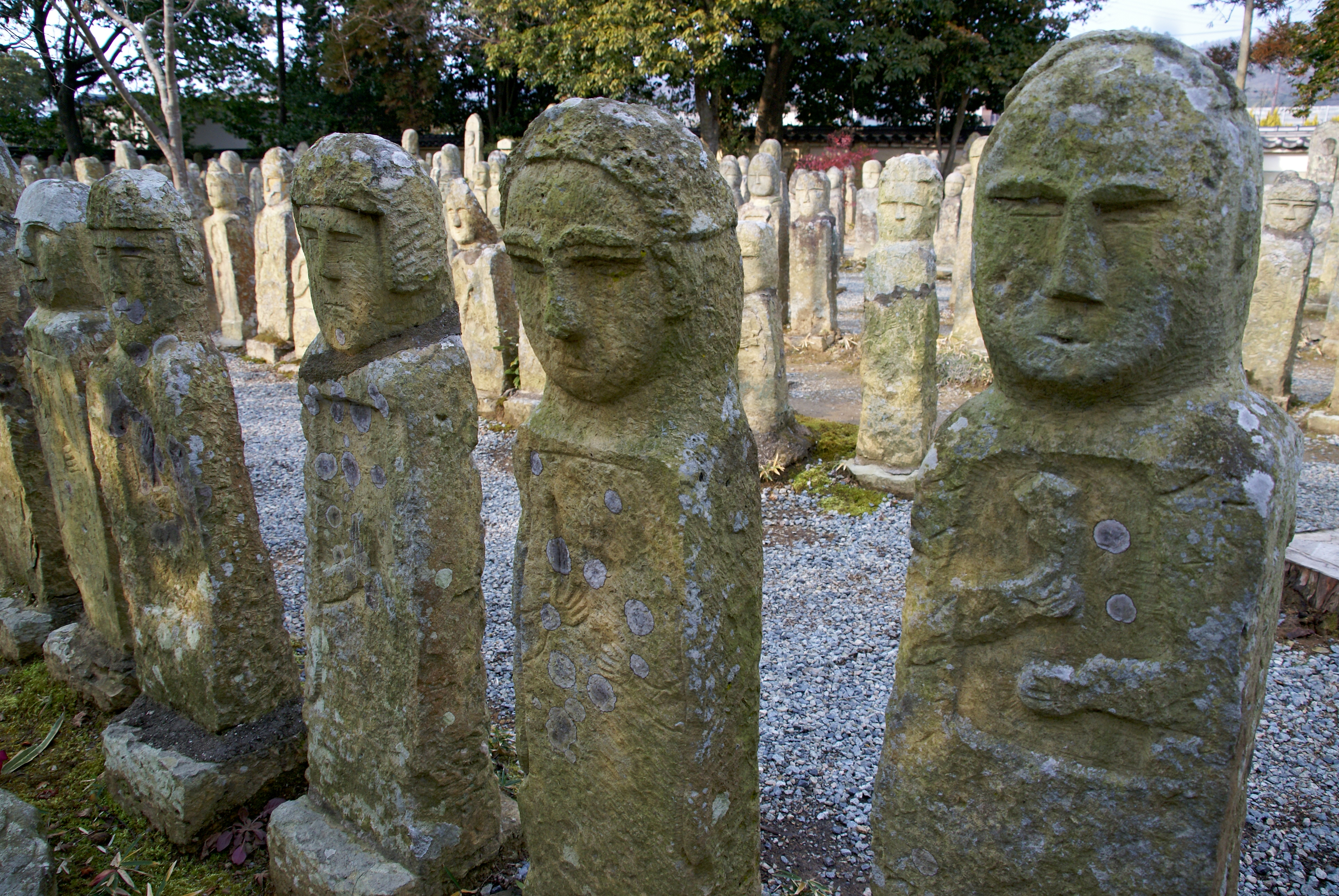 Rakan-ji in Kasai, Hyogo prefecture, Japan.